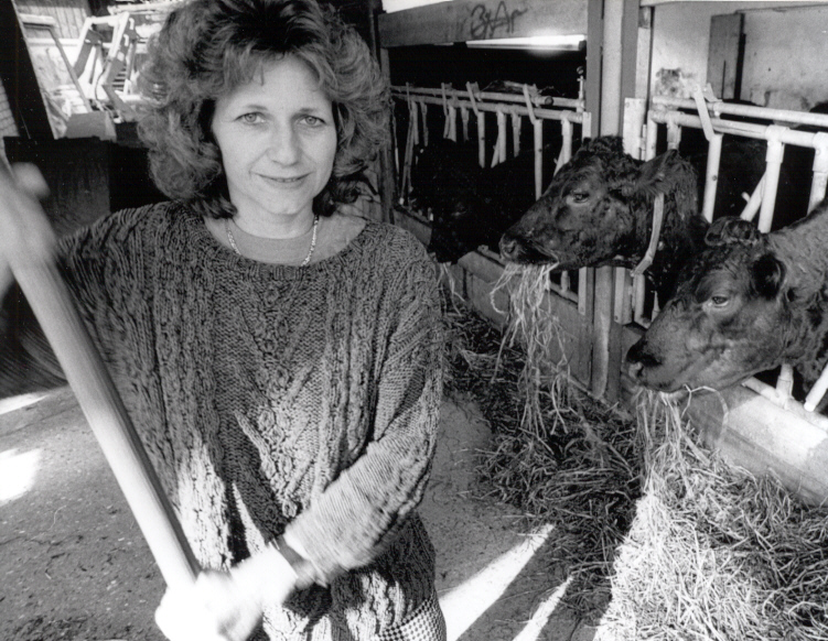 Stephanie Baumann, Swiss politician